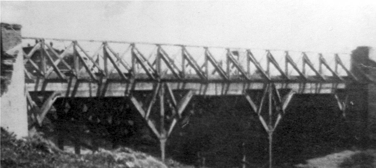 Márquez Bridge in Paso del Rey, built 1773, that cross the Reconquista River.